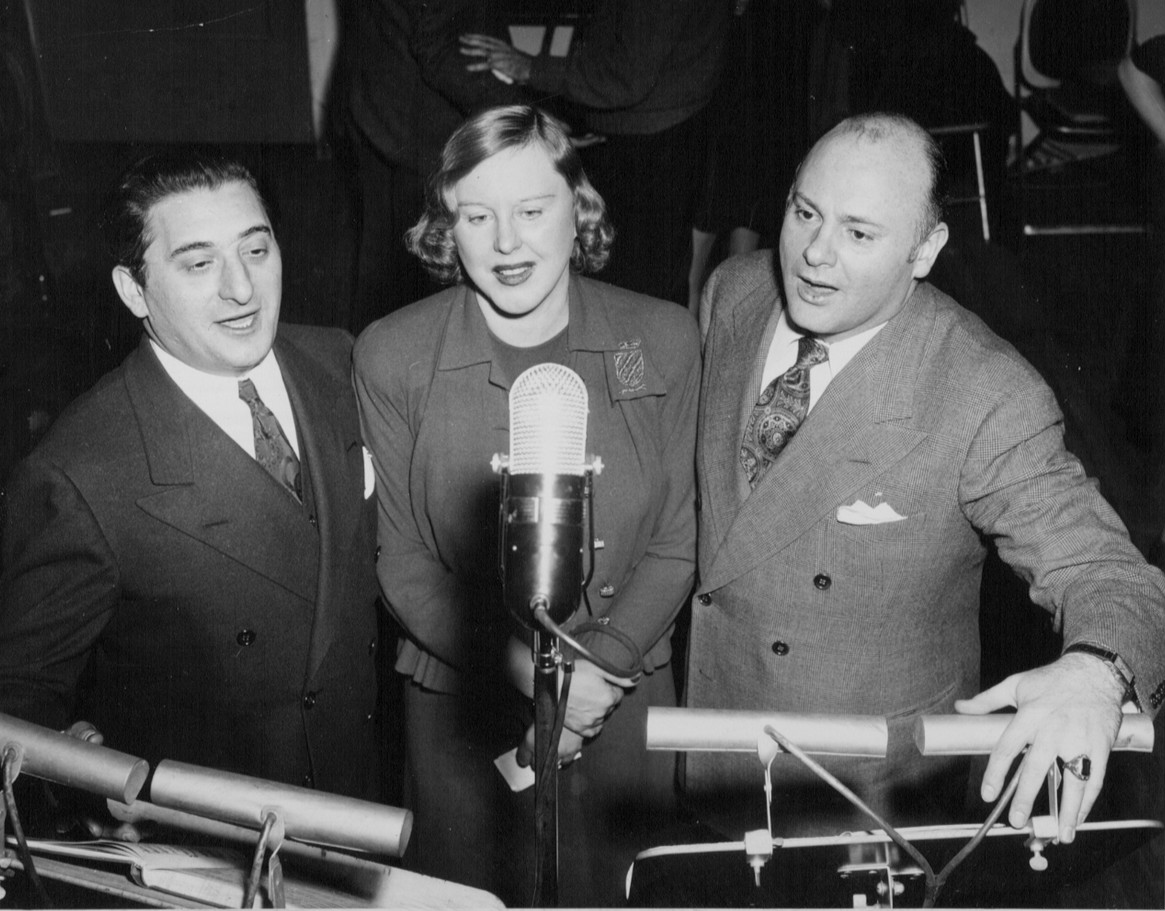 Photo of Jan Peerce, Jean Tennyson and Robert Weede from the CBS radio program Great Moments in Music.